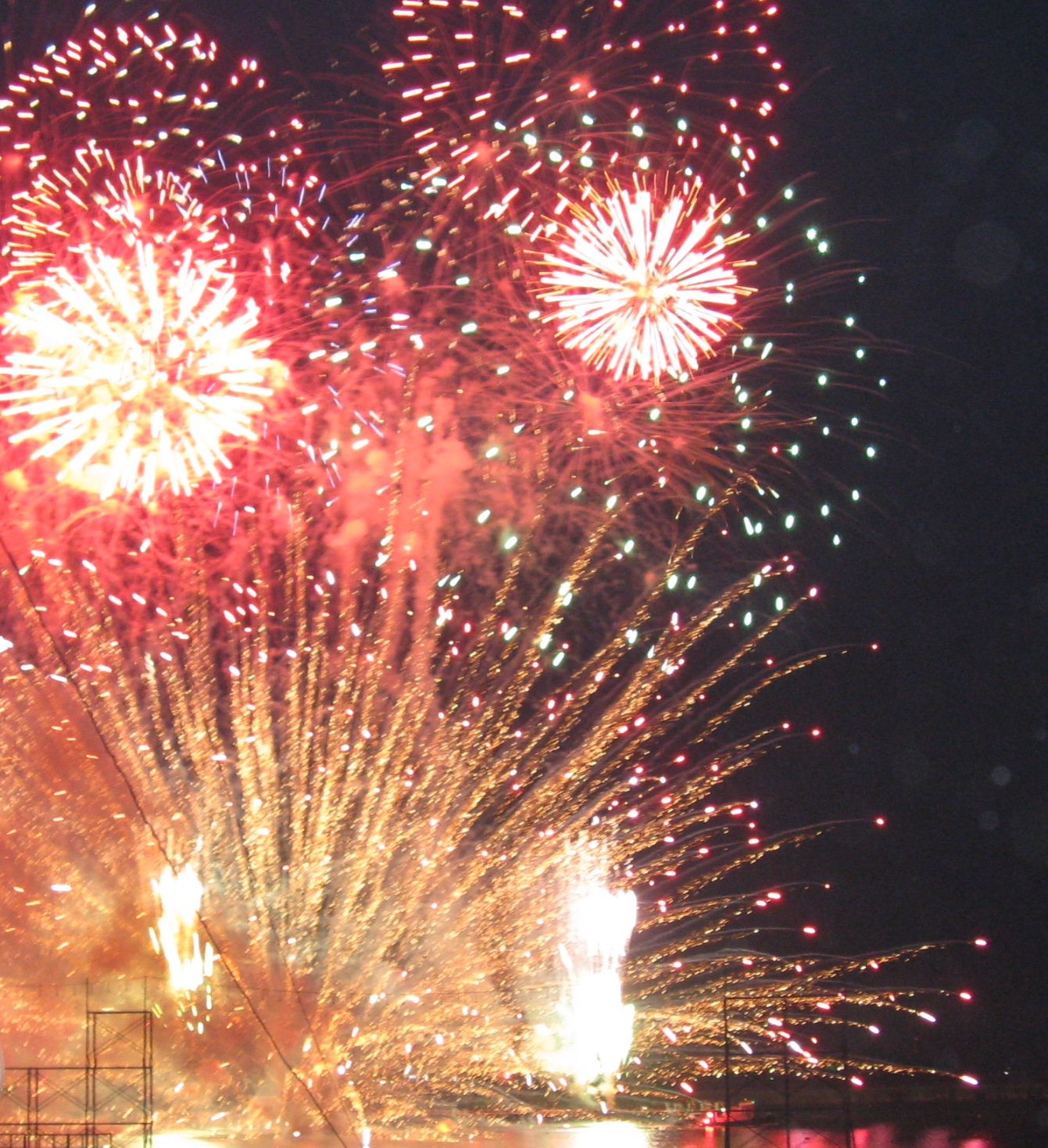 Suigo Omigawa fireworks 2008